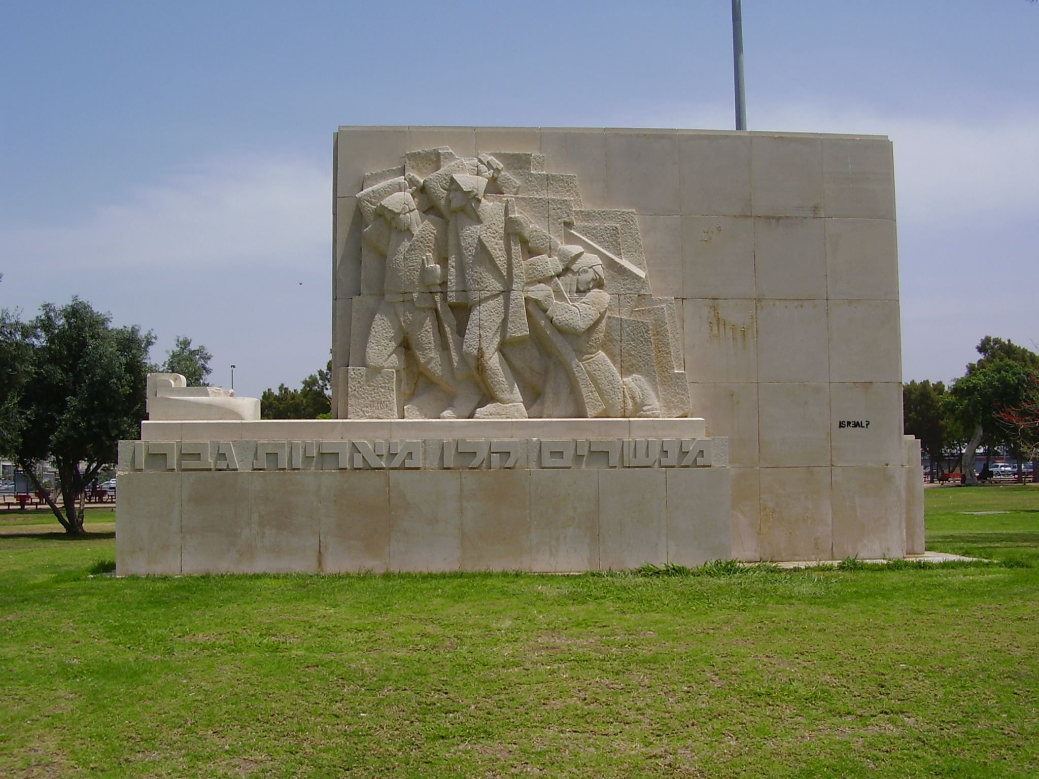 independence war memorial in tel aviv